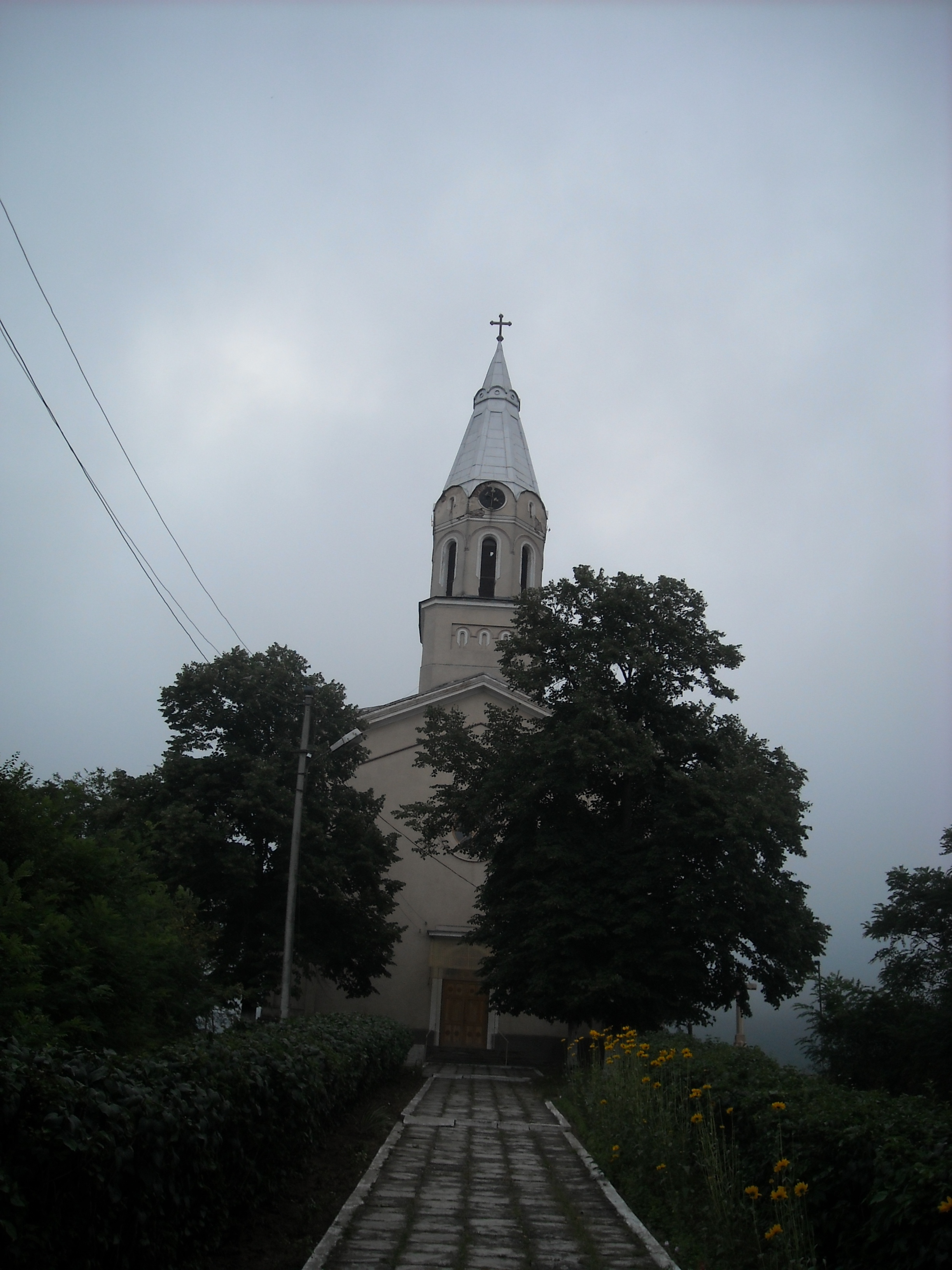 Romanian Greek Catholic church in Şiria, Romania (the castle hill in the background is entirely shrouded in the morning mist)